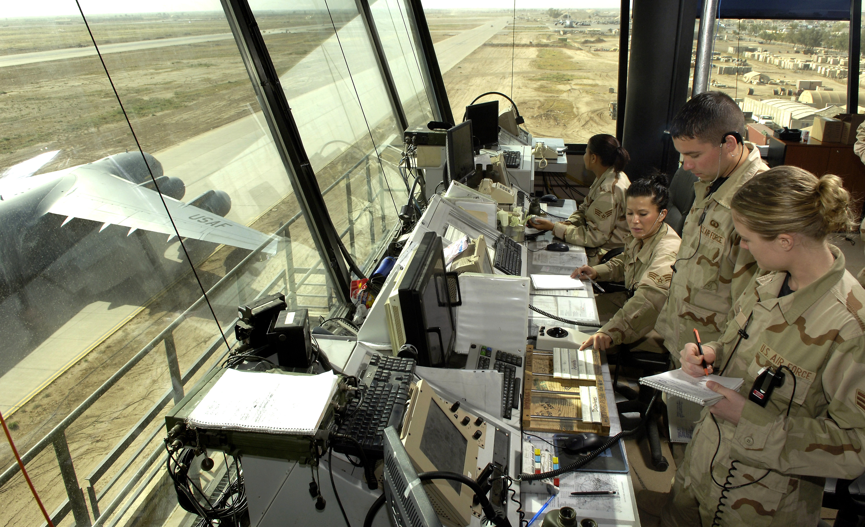 05/18/2006 Busy Air Field (Left to right) United States Air Force Senior Airman Nicole Lundie, Senior Airman Sherrilyn Ceja, Staff Sgt. Pete Salzano, and Senior Airman Cortney Goes control aircraft flying into and out of Balad Air Base, Iraq, as a C-17 Globemaster III taxis past the tower, May 15, 2006. The airfield is the busiest single-runway airfield in the Defense Department.